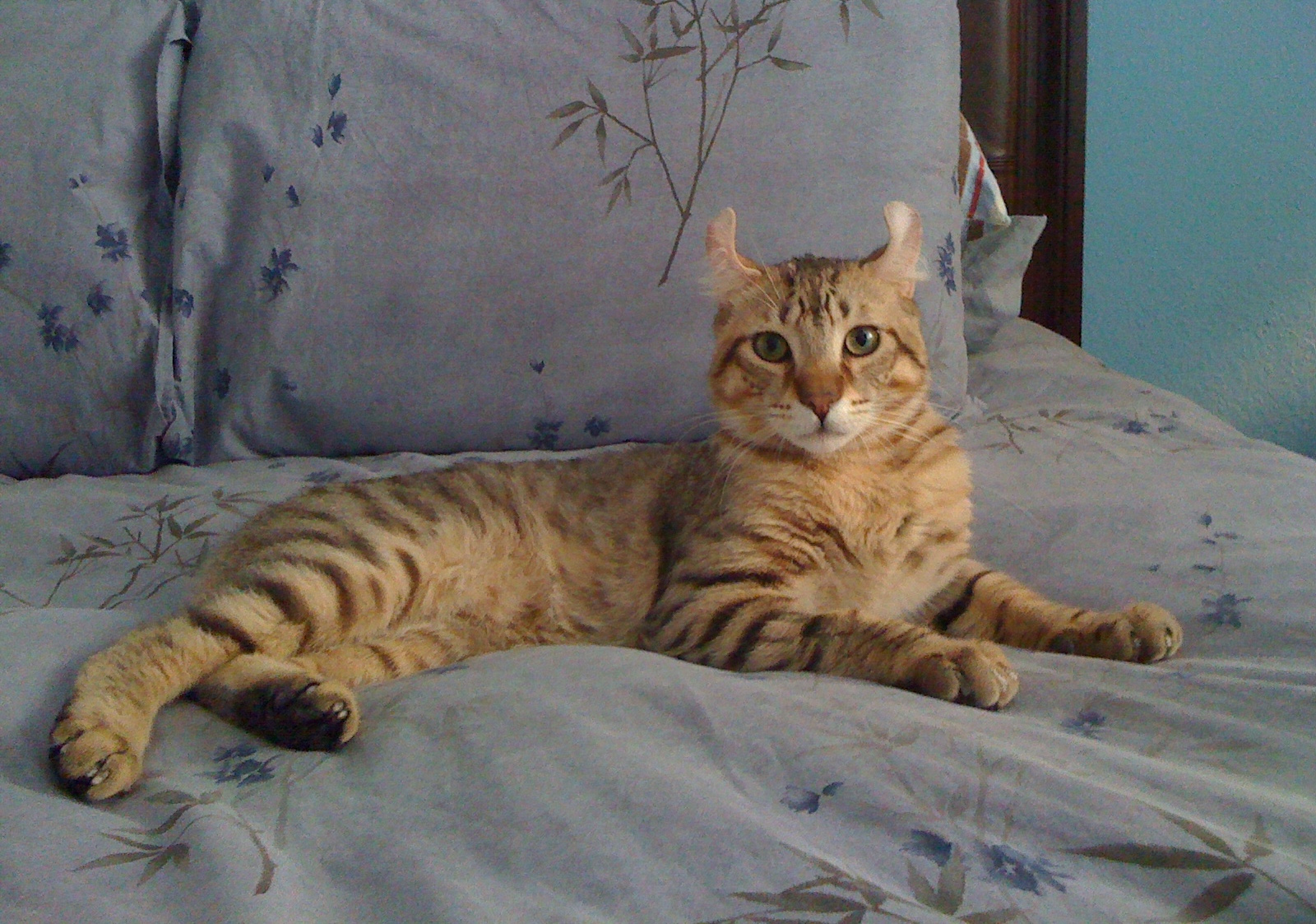 Highland cat reclined.